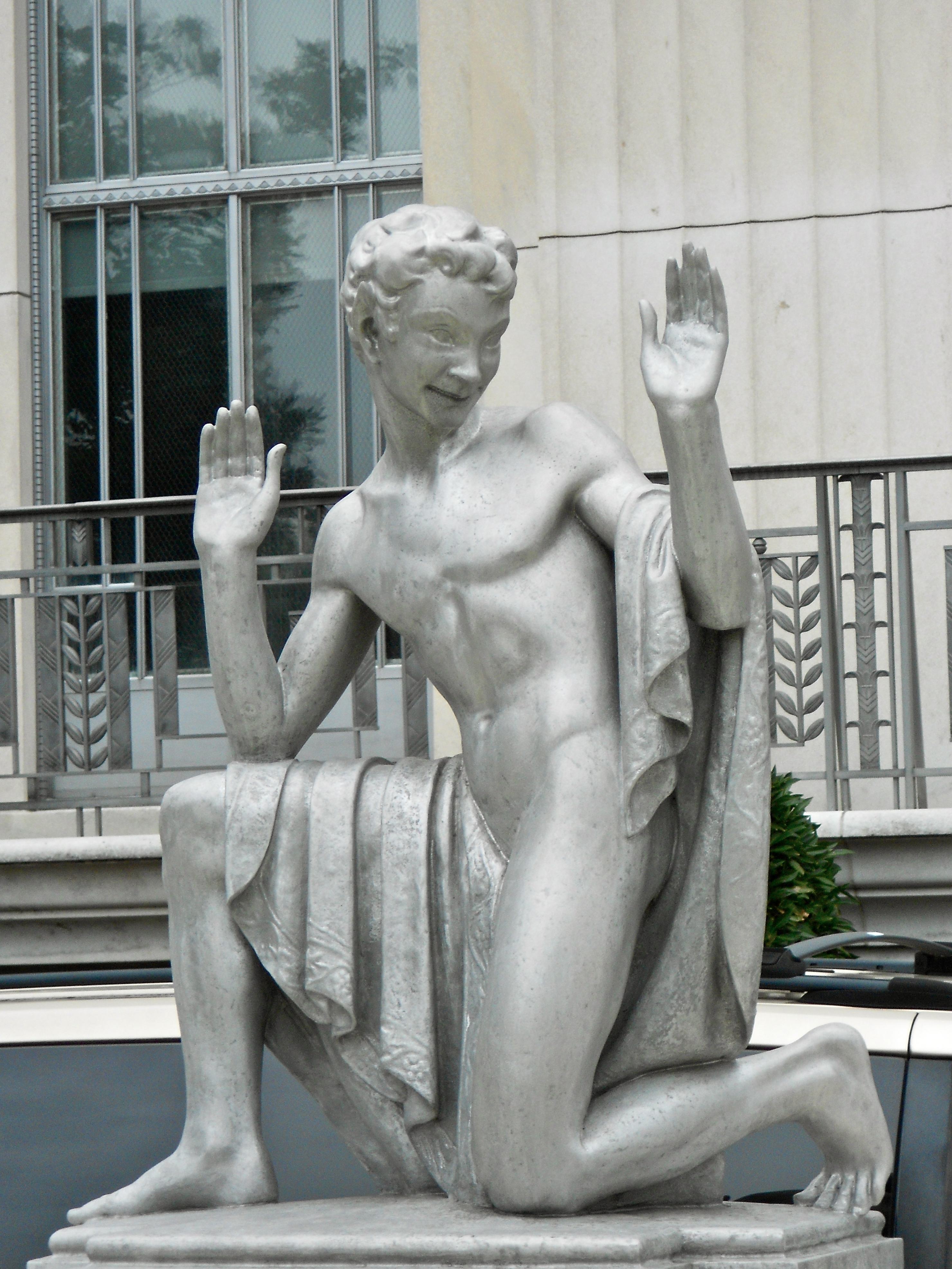 Sculpture at the Folger Shakespeare Library in Washington, DC (just northeast of the US Capitol) by sculptor Brenda Putnam, 1932. No visible copyright notice so public domain.